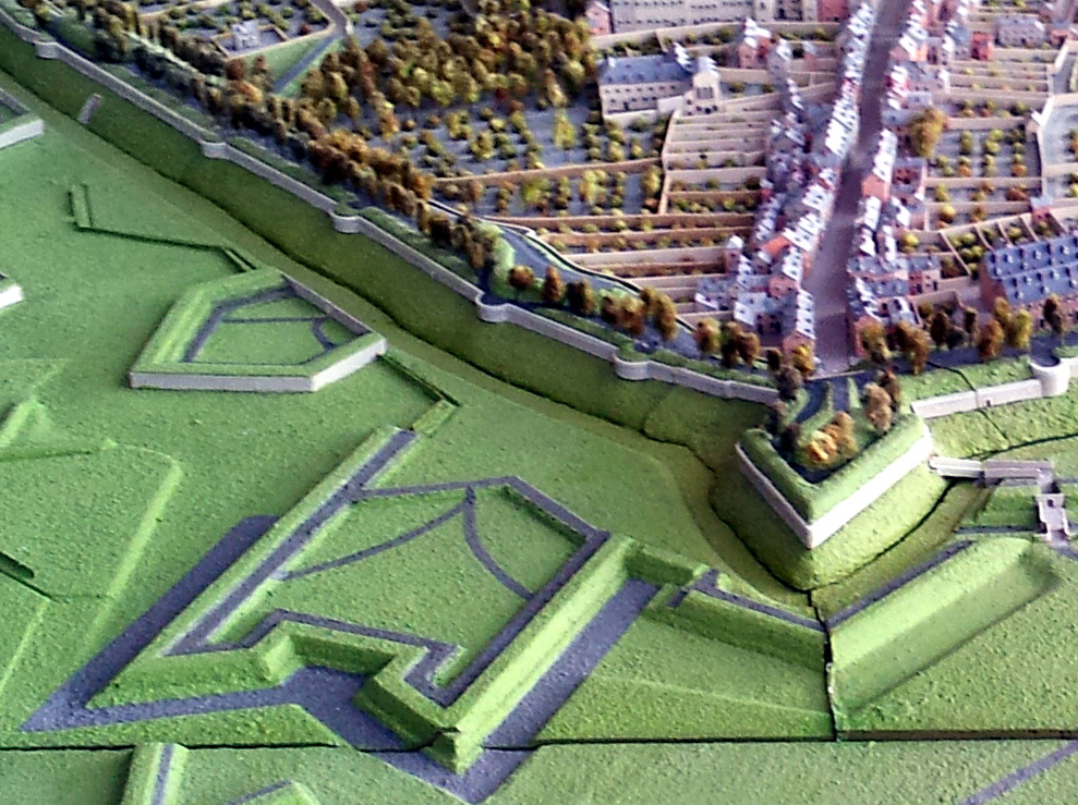 Detail of the Maquette of Maastricht with a view of the fortifications near Brusselsepoort, to the west of the city. The scale model was made in 1974-1982, a genuine copy of the 18th-century original made for King Louis XV of France, now in the Palais des Beaux-Arts in Lille).